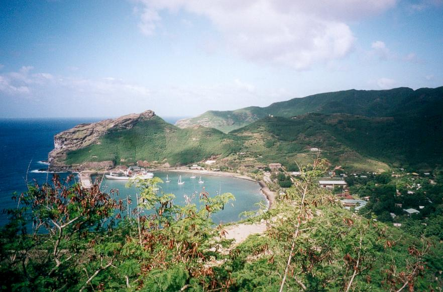 Hakahau sea-port, from the road heading to Ua Pu airport